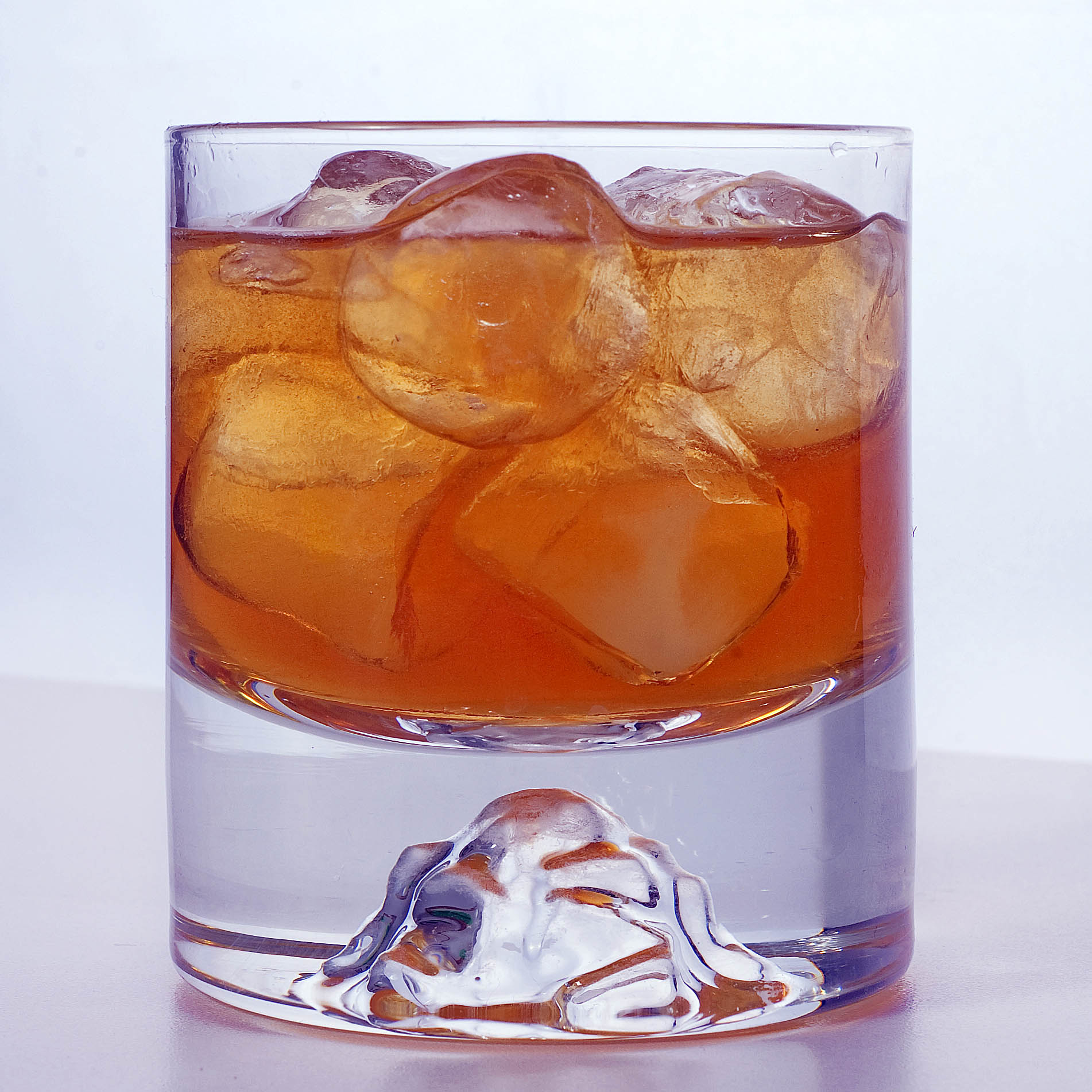 Recipe can be found at